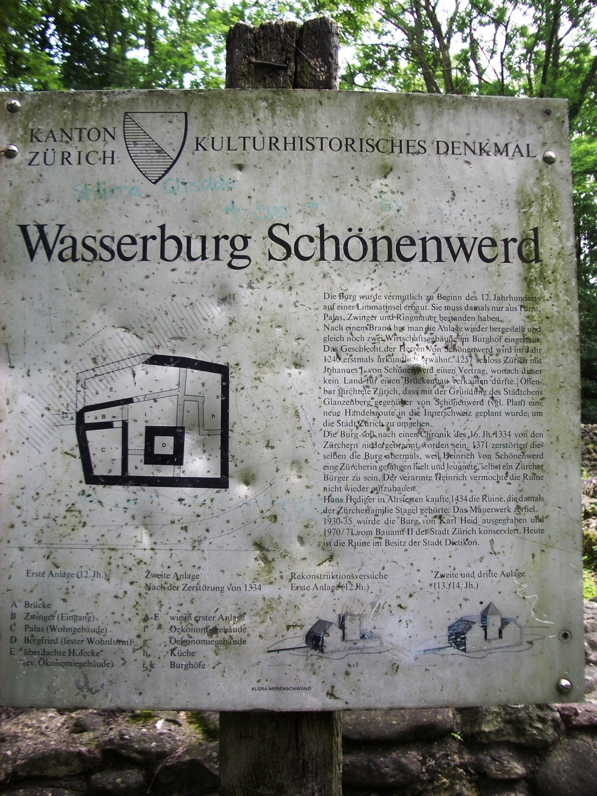 Dietikon ZH, Switzerland